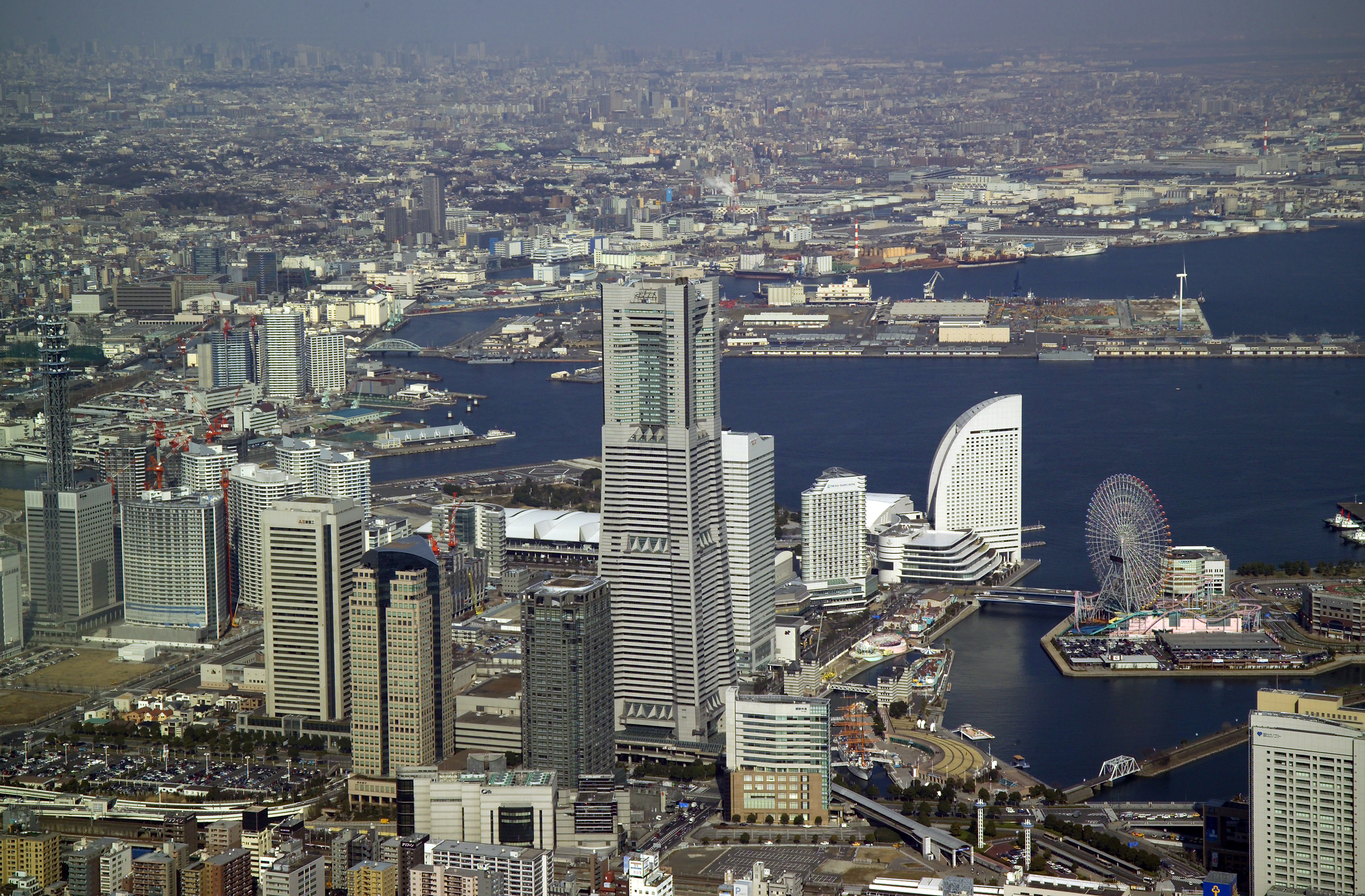 This photograph shows the new development along the waterfront of the city of Yokohama including the Yokohama Landmark Tower in the Minato Mirai 21 area.